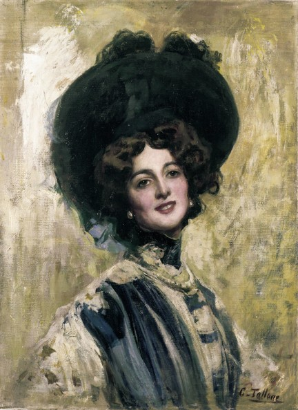 Portrait of Lina Cavalieri